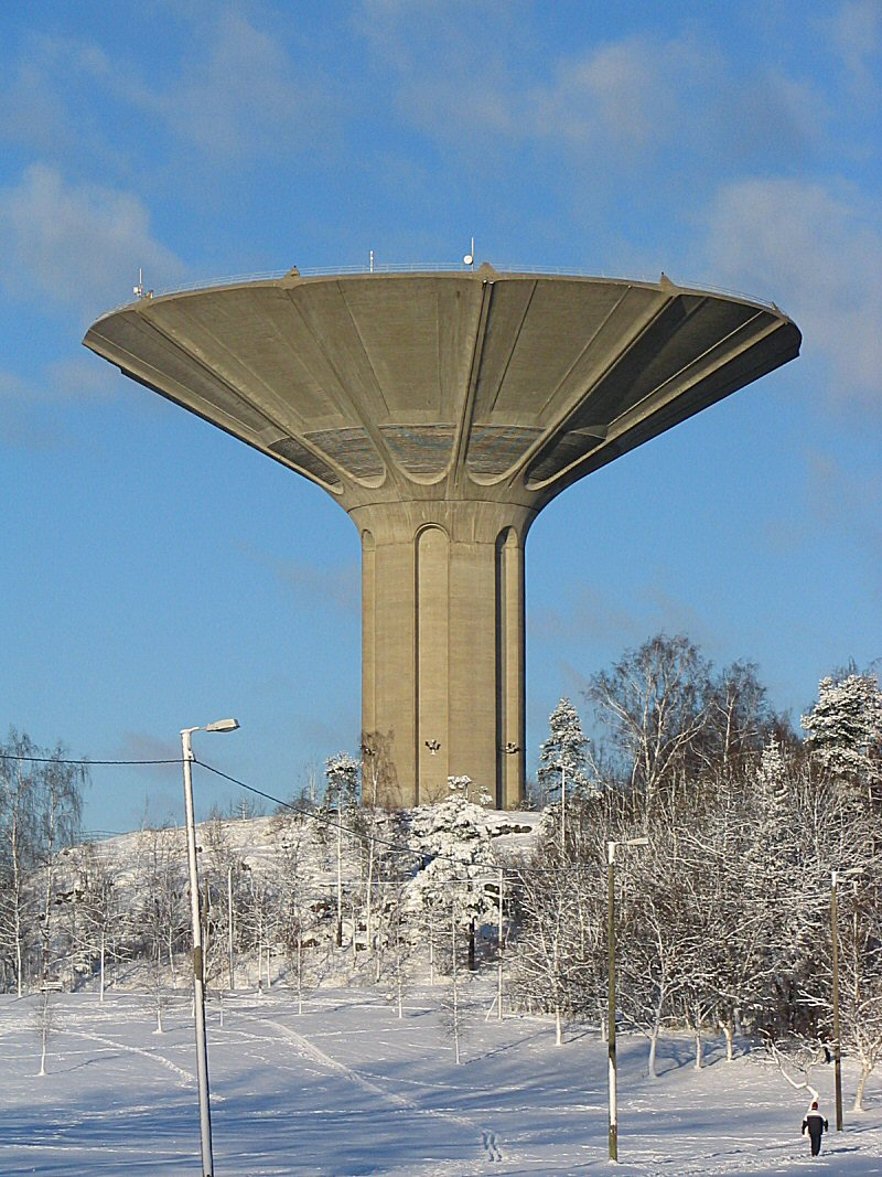 Roihuvuori water tower in Eastern Helsinki, Finland. (60° 11' 51" N 25° 02' 59" E) Built in the 1976–1977.Design by architect Simo Lumme. It is 52 metres high and can hold around 12,000 m³ of water.